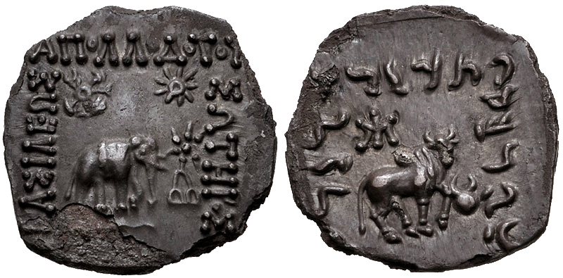 Apollodotos I coin with symbols. Circa 180-160 BC. AR Hemidrachm (14.5mm, 0.91 g, 12h). Elephant standing right; above, six-armed taurine symbol and radiate sun; to right, three-arched hill surmounted by star / Zebu standing right; monogram to upper left; taurine symbol to right.